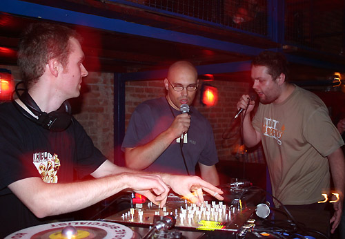 Rub-a-Dub style of Polish sound system, Love Pulse